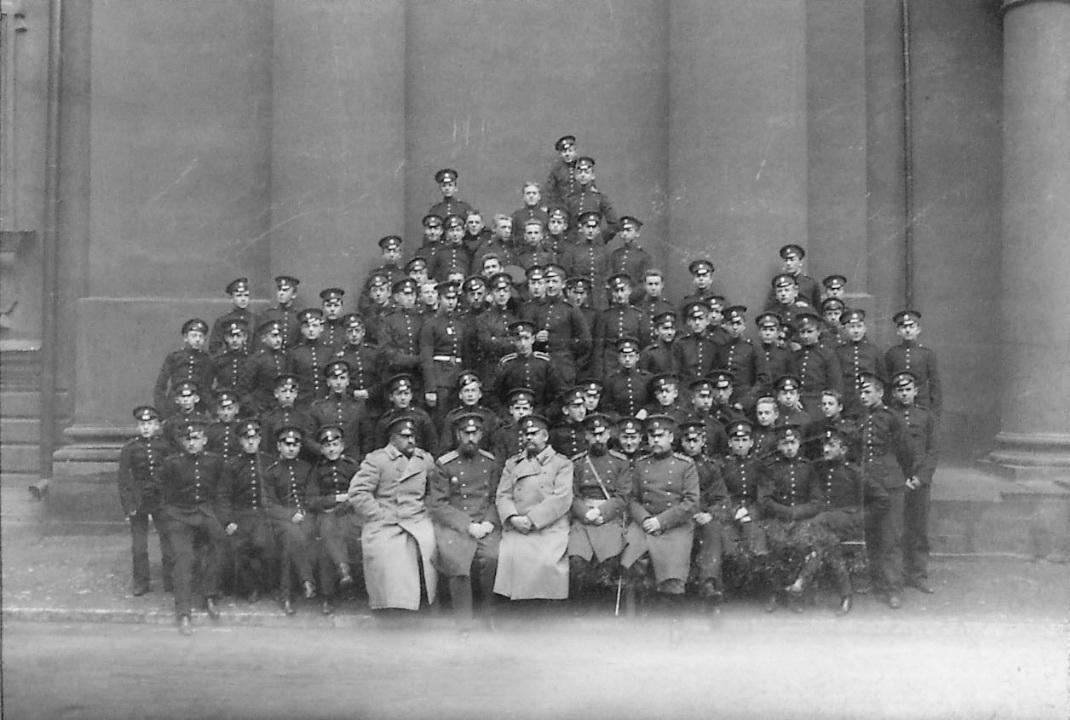 Second company of Page Corps.